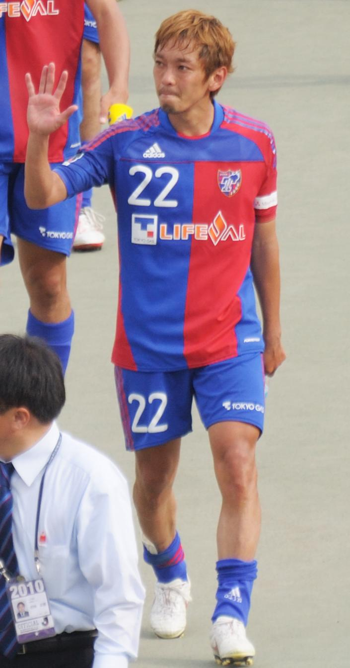 Naotake Hanyu cropped from DSC_4427